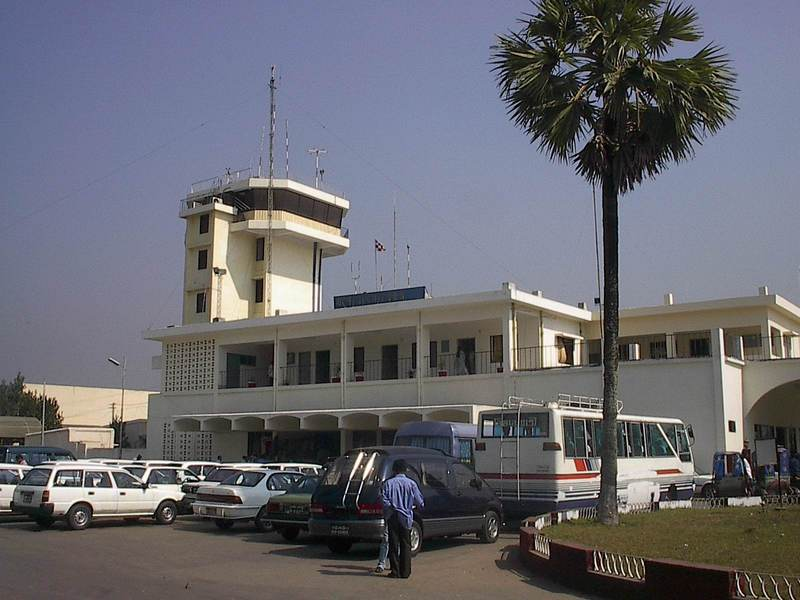 Jessore Airport